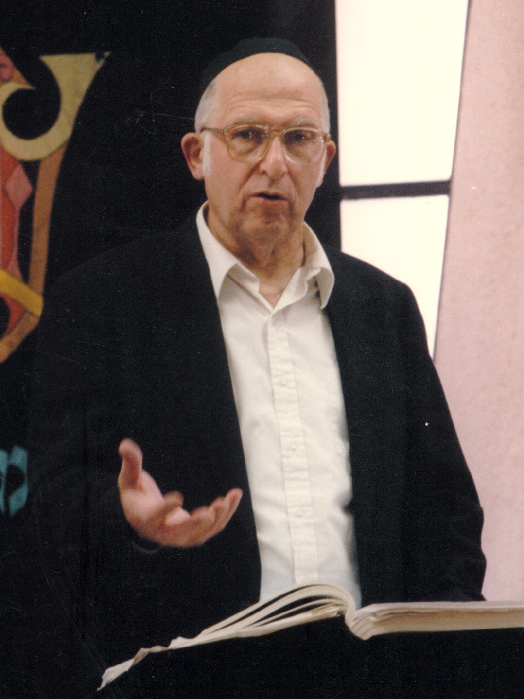 Rav Aharon Lichtenstein teaching at Yeshivat Har Etzion